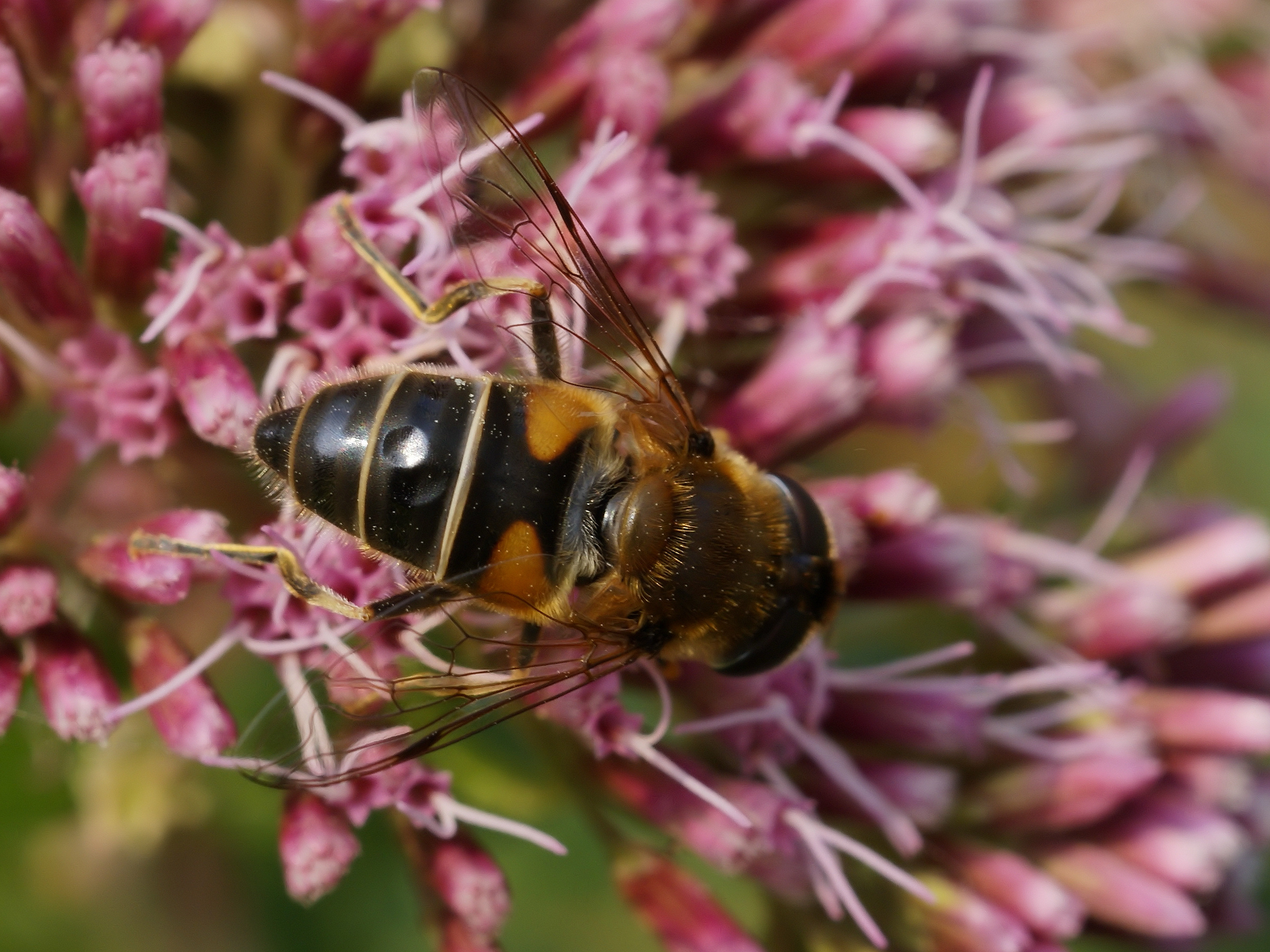 A ♀ hoverflyon Hemp-agrimony at Rijckevelde, Brugge, Belgium